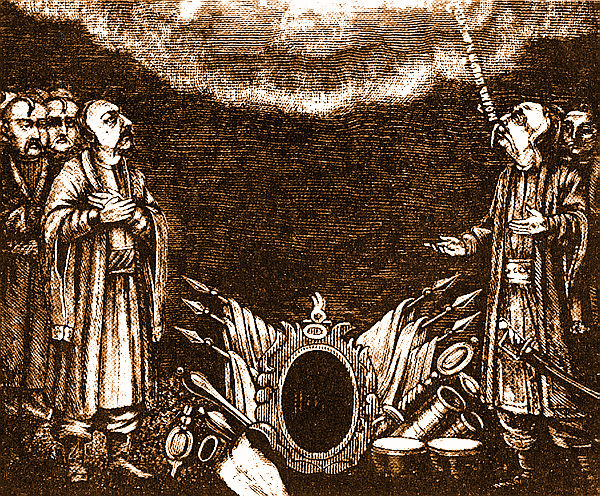 Zaporizhian Cossacks Prayer, fragment of icon of Protection of Holy Virgin